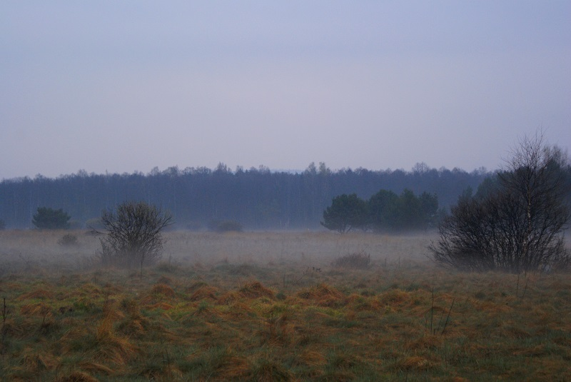 Dulowska Forest